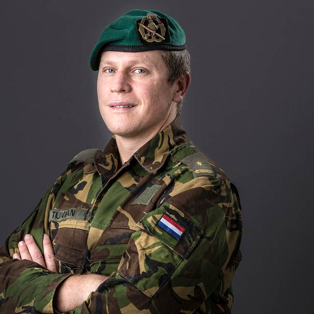 Gijs Tuinman, Dutch officer and recipient of the Military William Order